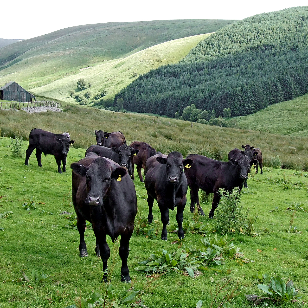 Welsh Blacks, Cwm Doethie, Ceredigion Young cattle, playful and inquisitive, but wary!